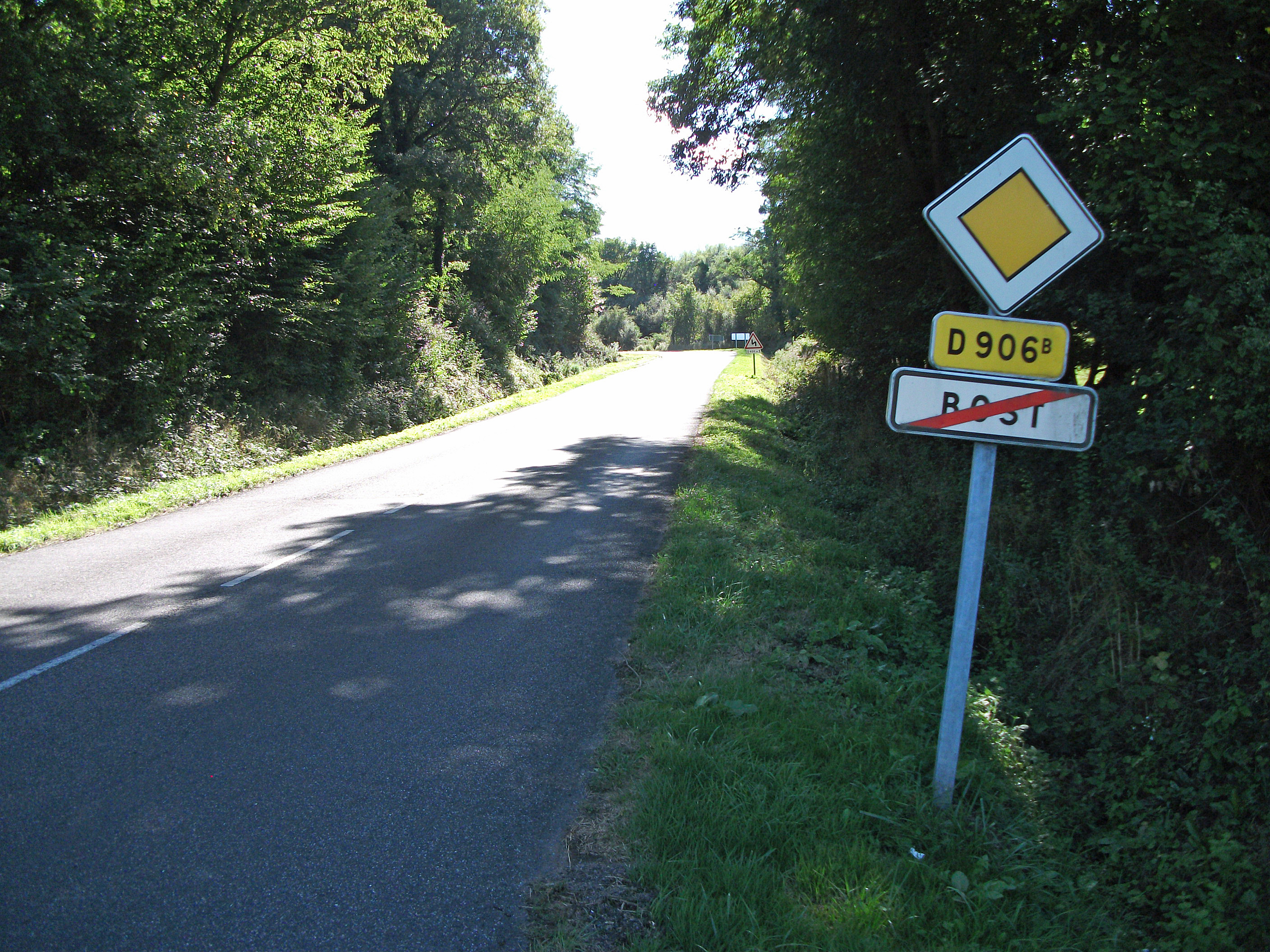 Exit of Bost by departmental road 906B, towards Cusset [8898]